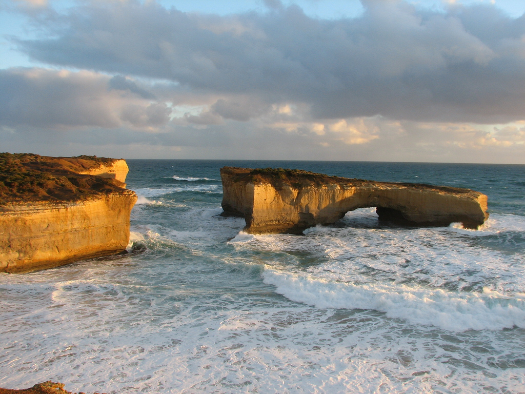 London Arch Great Ocean Road